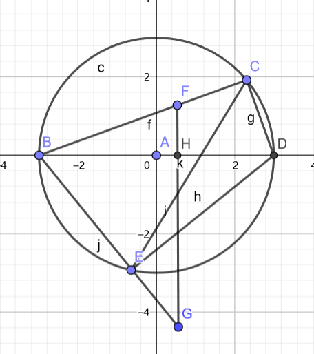 for proof only